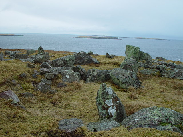 Standing Stones of Yoxie, Whalsay, Shetland. On the east side of Whalsay, between Isbister and Skaw are the Standing Stones of Yoxie. Excavated in 1954-5 they are now thought to me similar in layout to sites in Malta and Gozo.